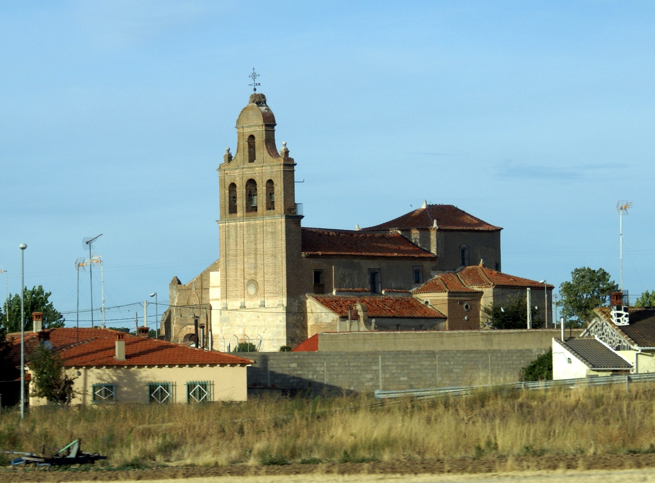 View of Gutierre-Muñoz, Ávila, Spain.